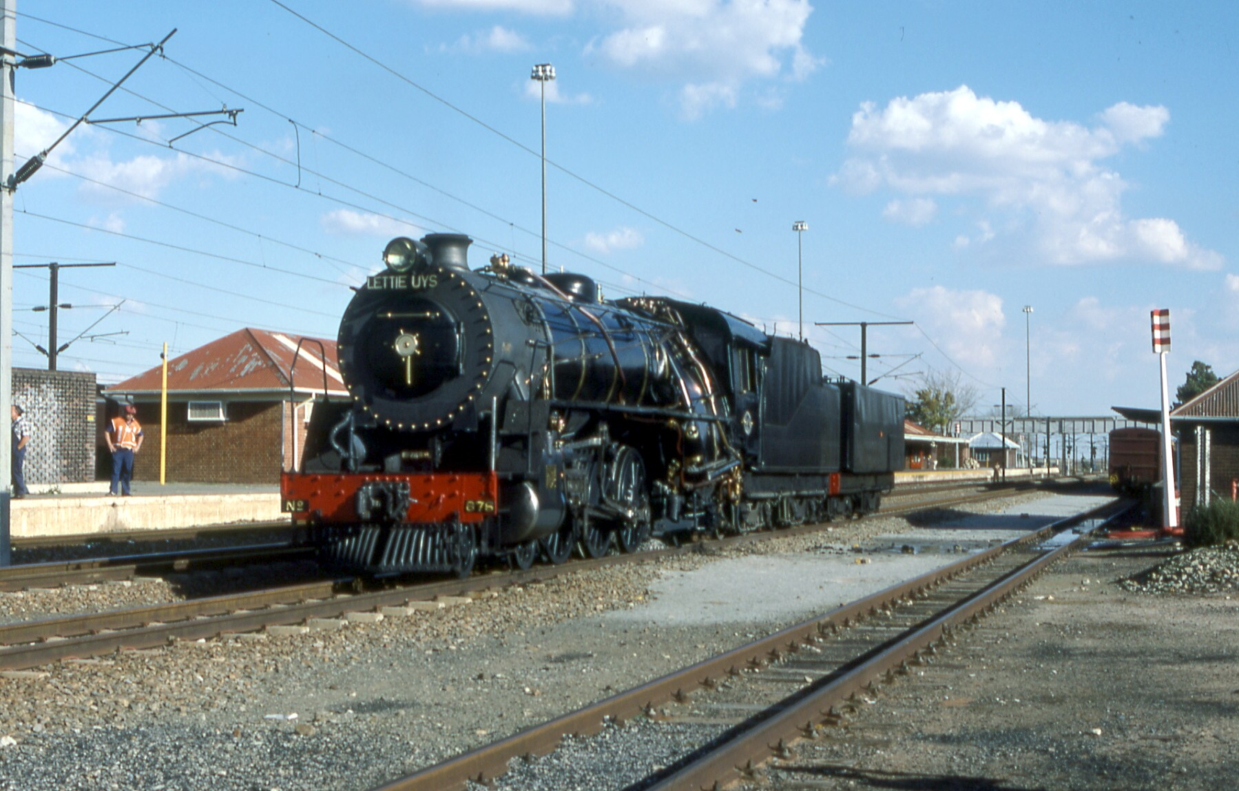 SAR Class 16DA 876 (4-6-2) "Lettie Uys" Builder's Number: Henschel 21751 Location: Springfontein, Free State